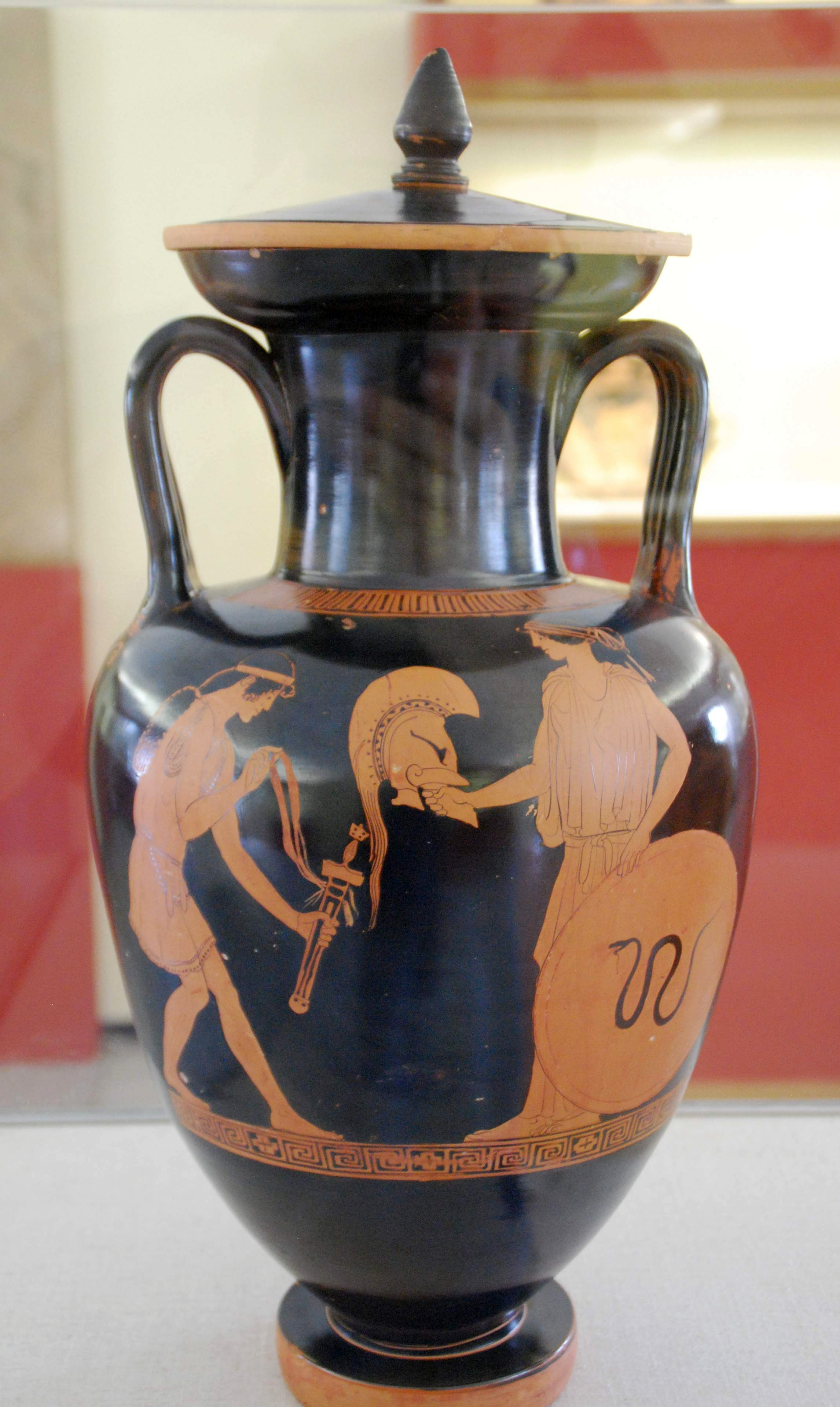 Attic red-figure Amphora of painter Hermonax; Warriors farewell: Sister giving his Brother the Weapons; ca. 450 B.C., Martin von Wagner Museum Würzburg, Inventarnumber HA 117 (= L 504)